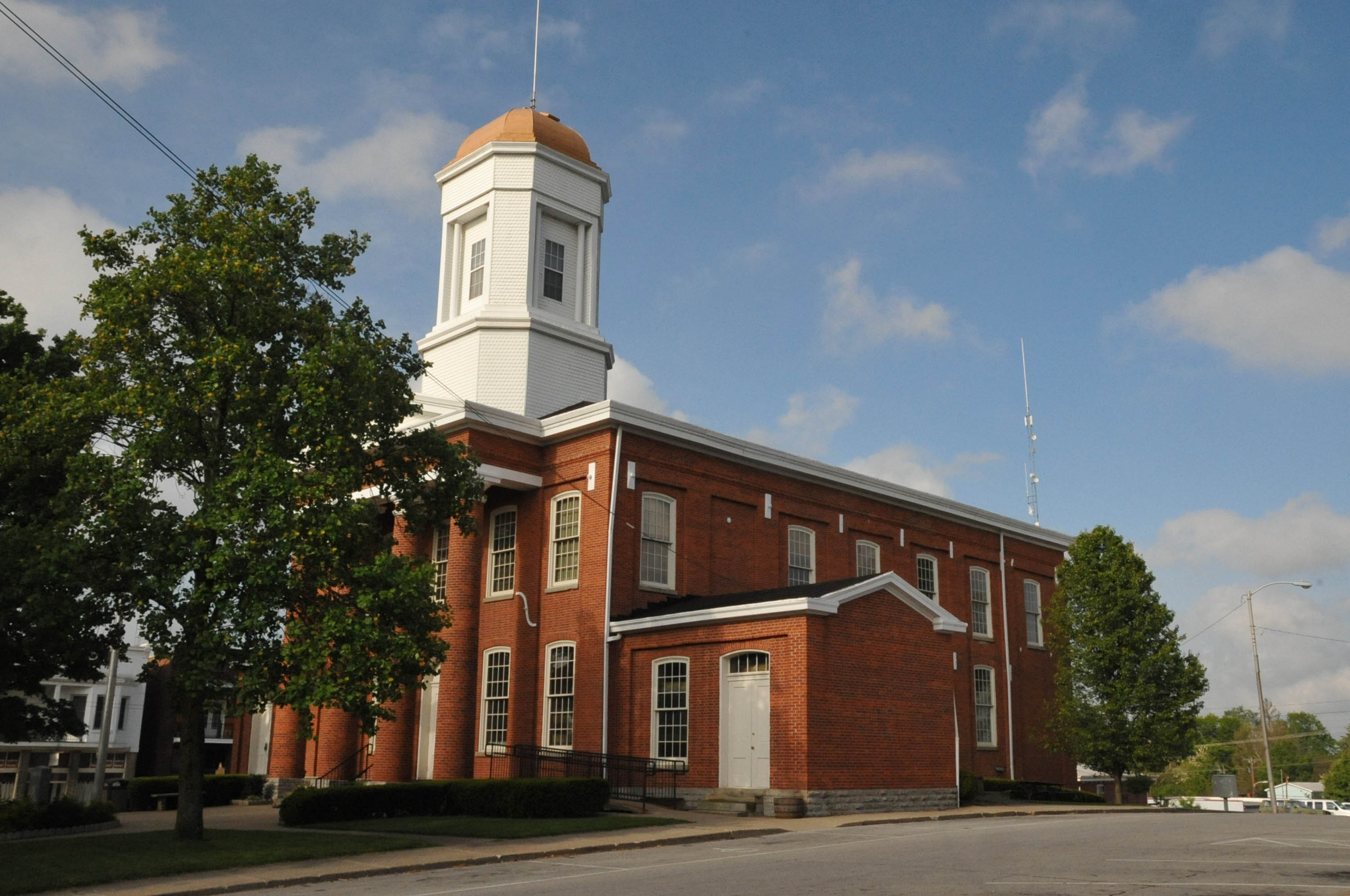 Completed in 1858 and occupied by both Union and Confederate troops